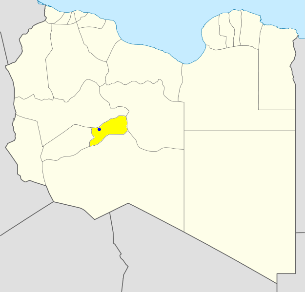 Locator map of the city of Sabha (blue dot) within the map of Libya. Sabha District is shown in yellow.